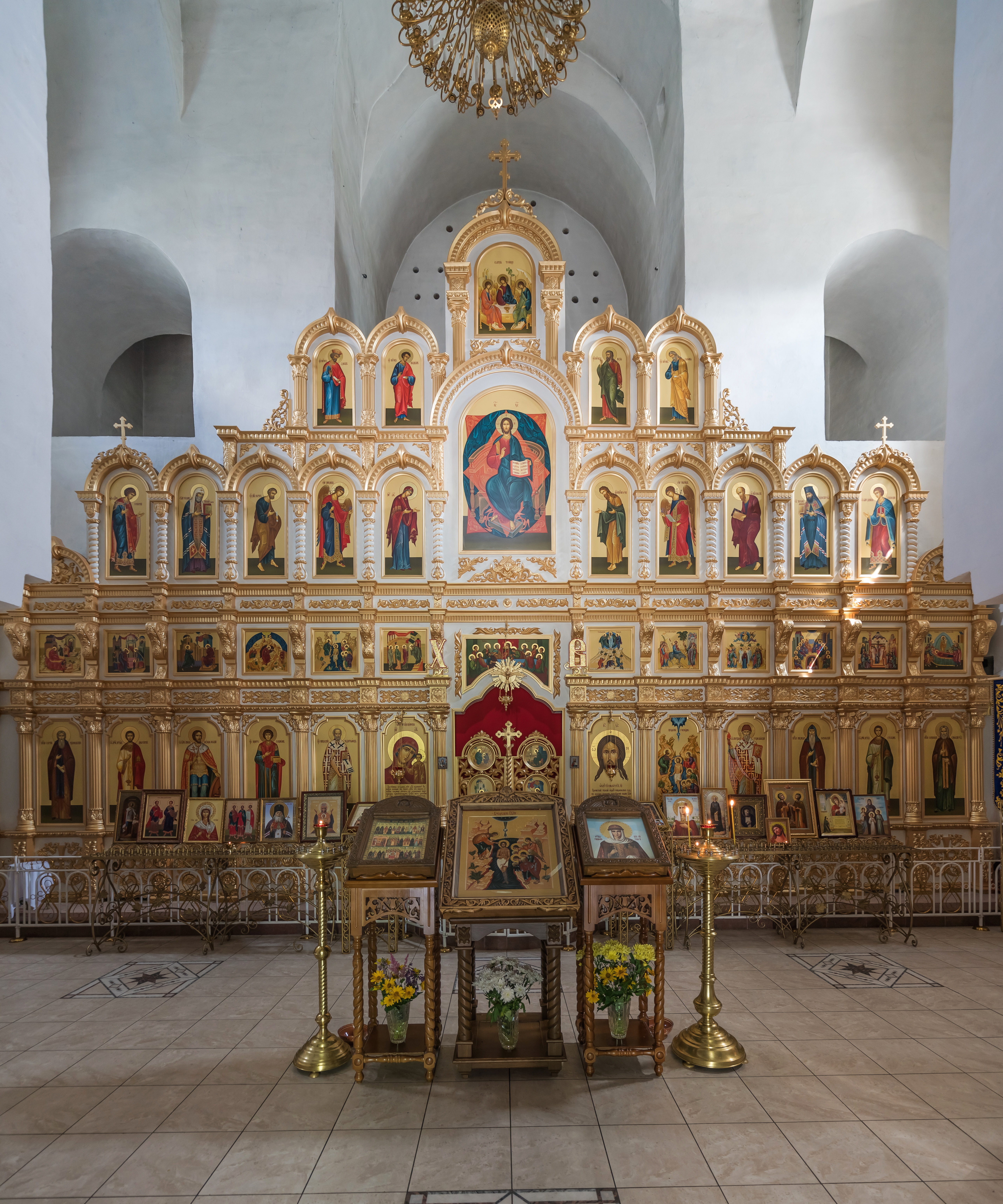 Interior of Epiphany Church «at Zapskovie» in Pskov, Russia